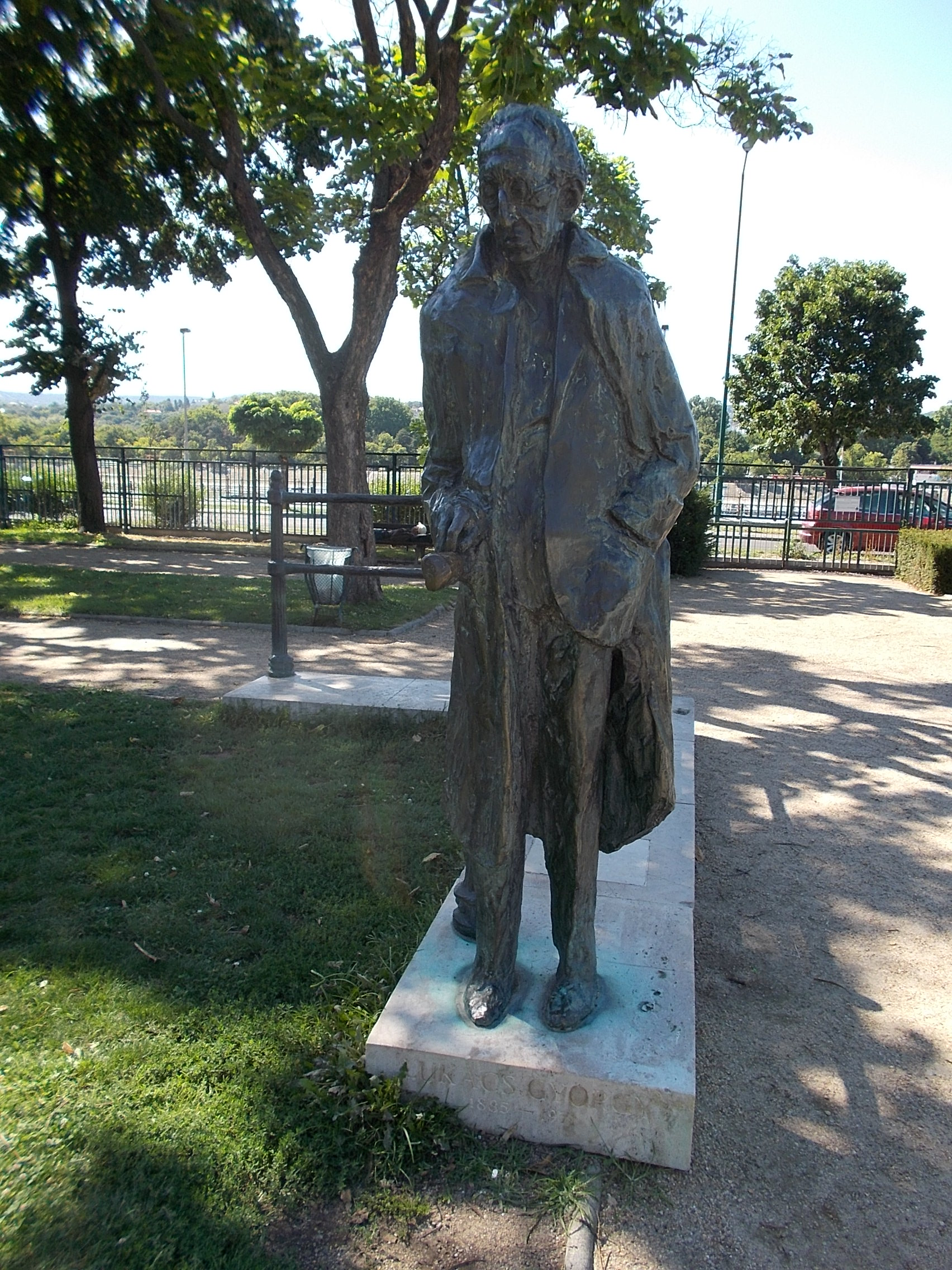 Szent István Park. Statue of György Lukács. - Budapest District XIII.